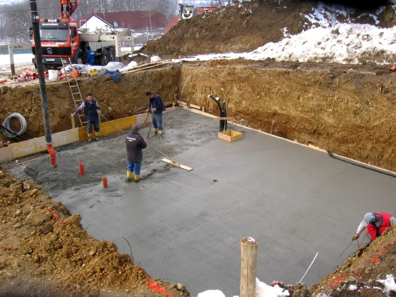 Pouring a concrete basement